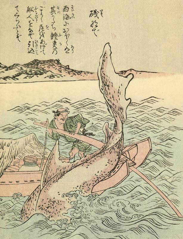 Isonade (磯撫) from the Ehon Hyaku Monogatari (絵本百物語)